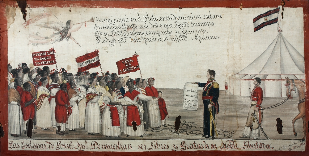 "Las esclavas de Buenos Aires demuestran ser libres y gratas a su Noble Libertador" (149 x73 cm); this painting celebrates the abolition of the African slave trade in Argentina in 1839